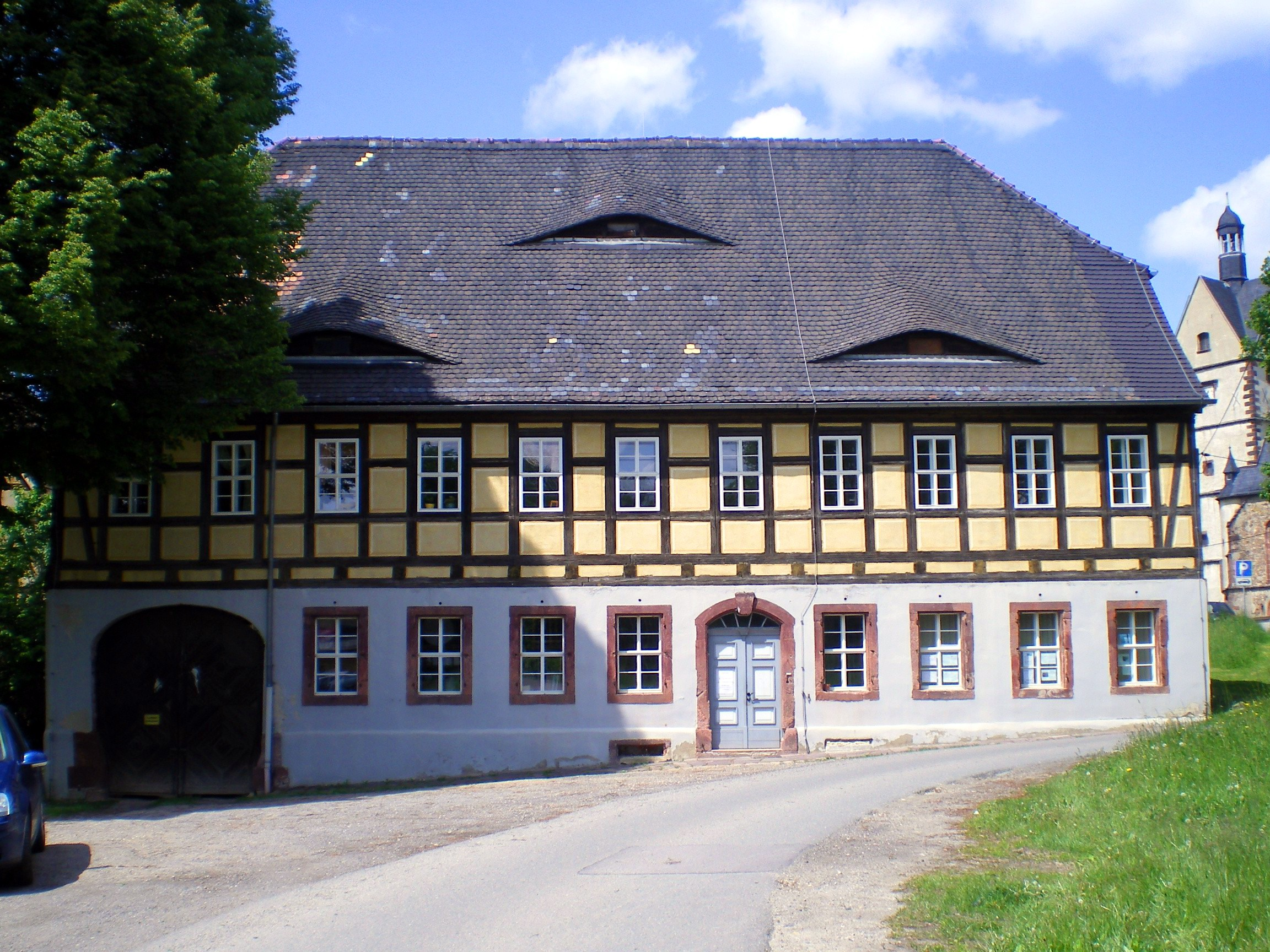 Rectory, timber framing house in Ziegelheim near Altenburg/Thuringia